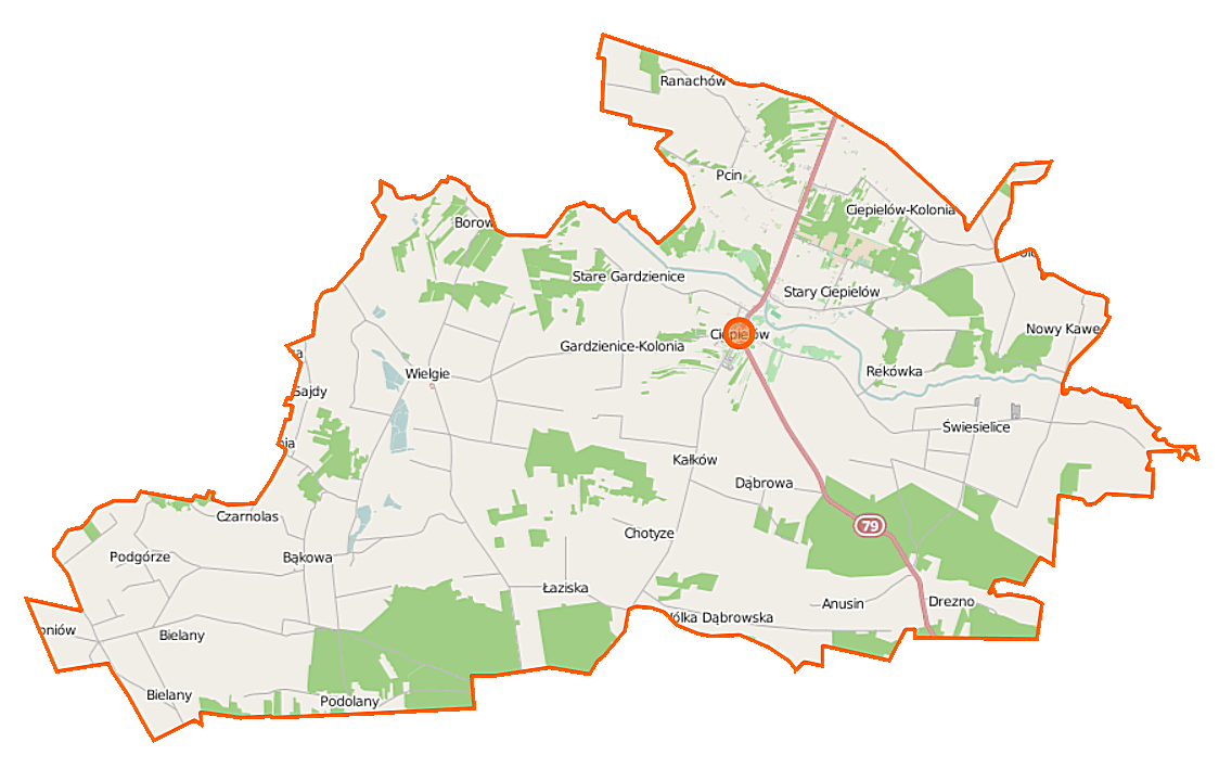 Map of Gmina Ciepielów, Poland This map of Ciepielów (gmina) was created from OpenStreetMap project data, collected by the community. This map may be incomplete, and may contain errors. Don't rely solely on it for navigation.